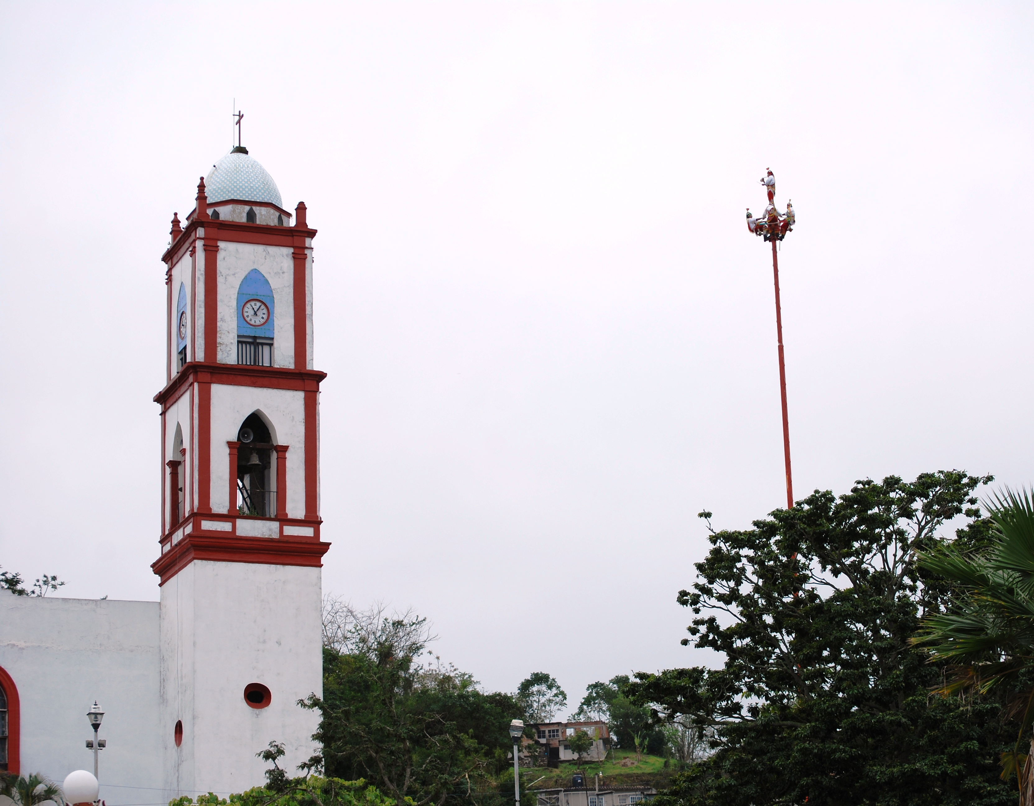 Church tower and voladores in Papantla, Veracruz, Mexico